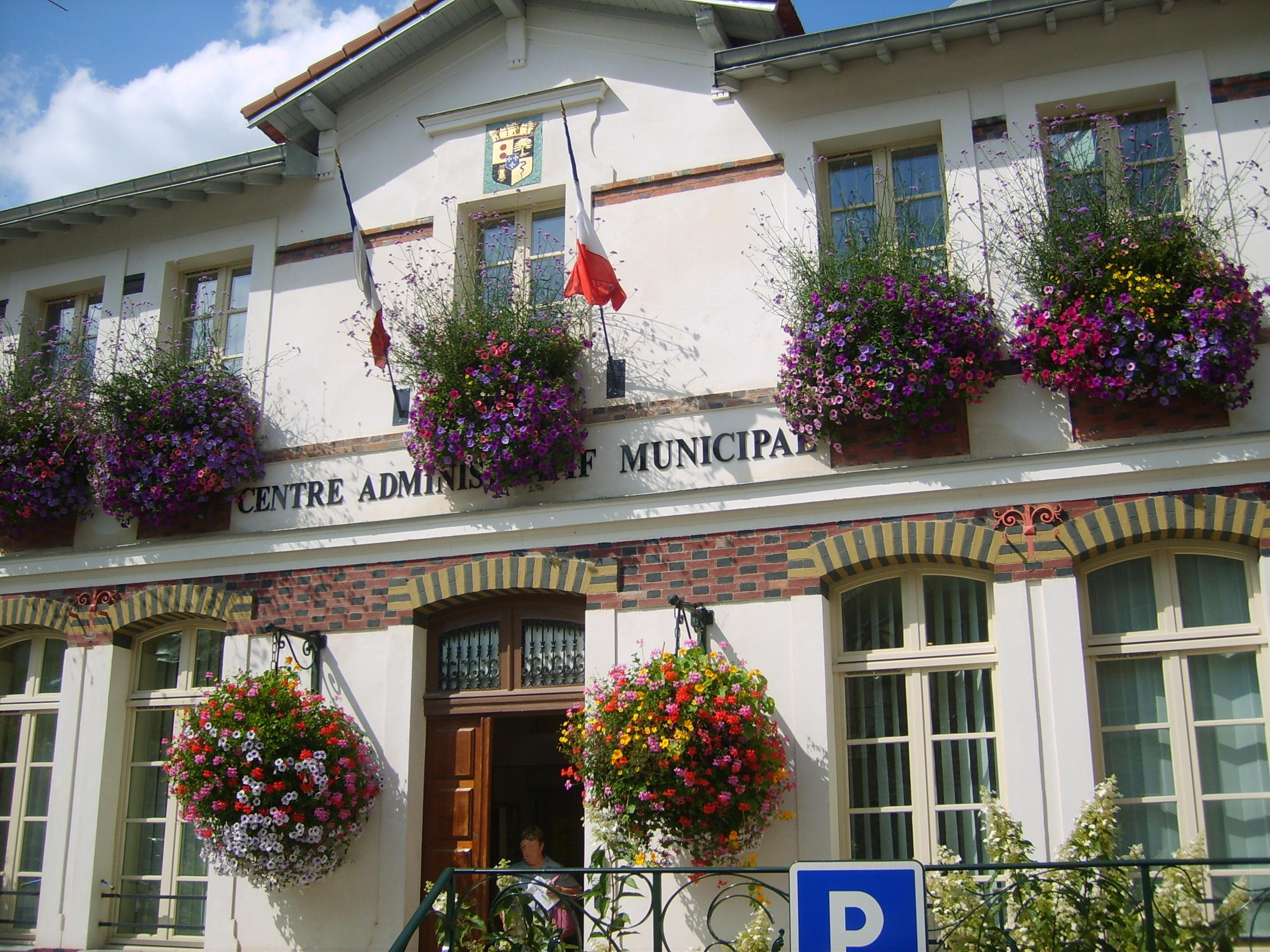 Le Plessis-Robinson, Hauts-de-Seine, in France.